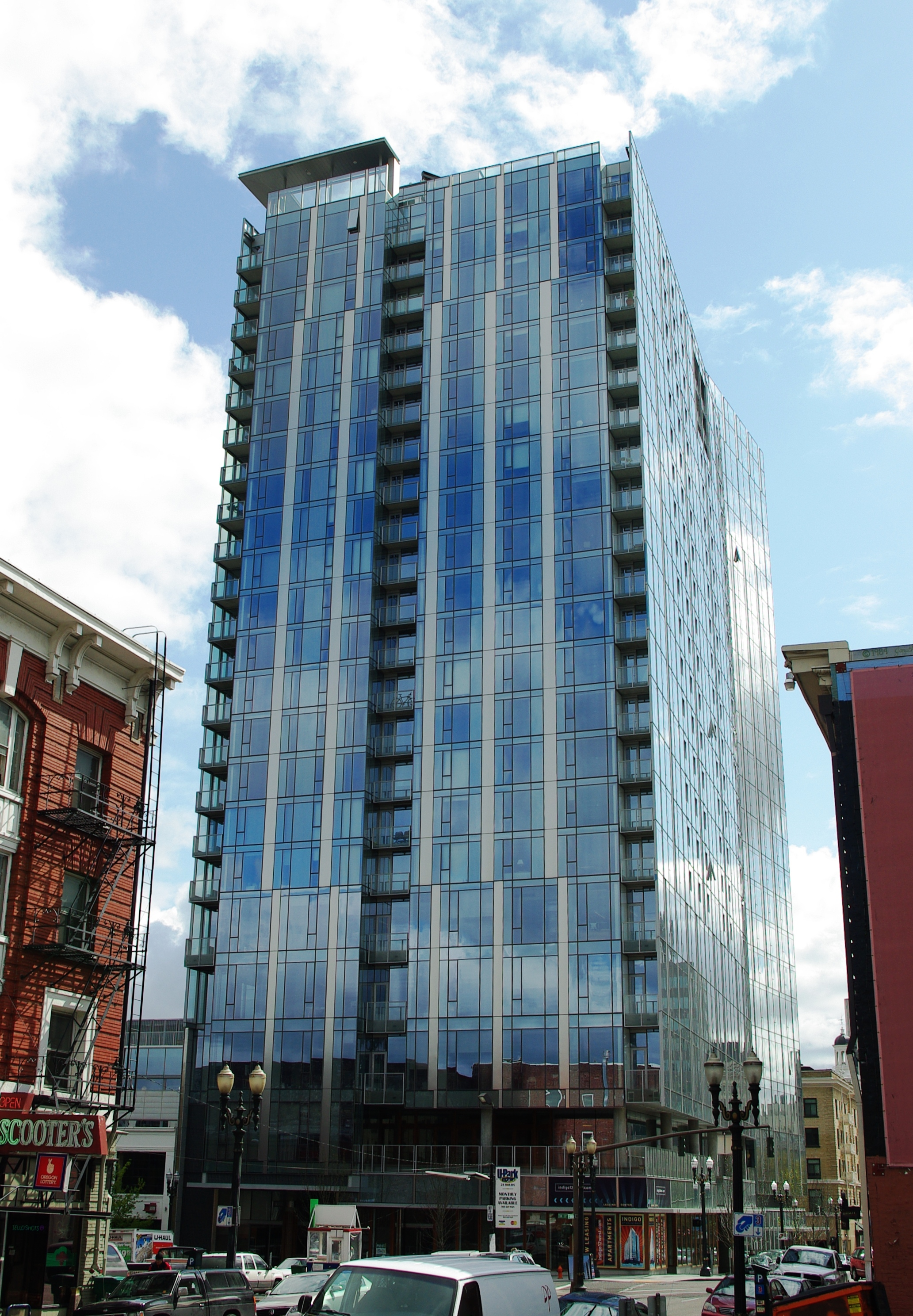 12W building in Portland, Oregon.